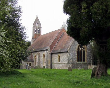 Church of England parish church of St Mary, Pyrton, Oxfordshire and graveyard